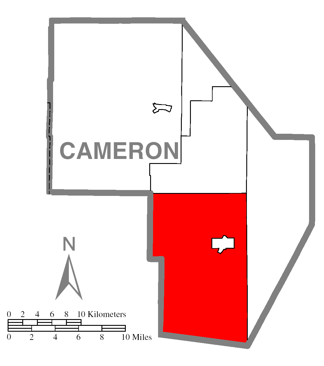 A map of Cameron County showing Gibson Township, Pennsylvania (alternate) highlighted on the map.